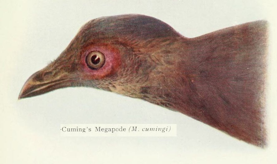 Megapodius cumingi (cropped from original plate)